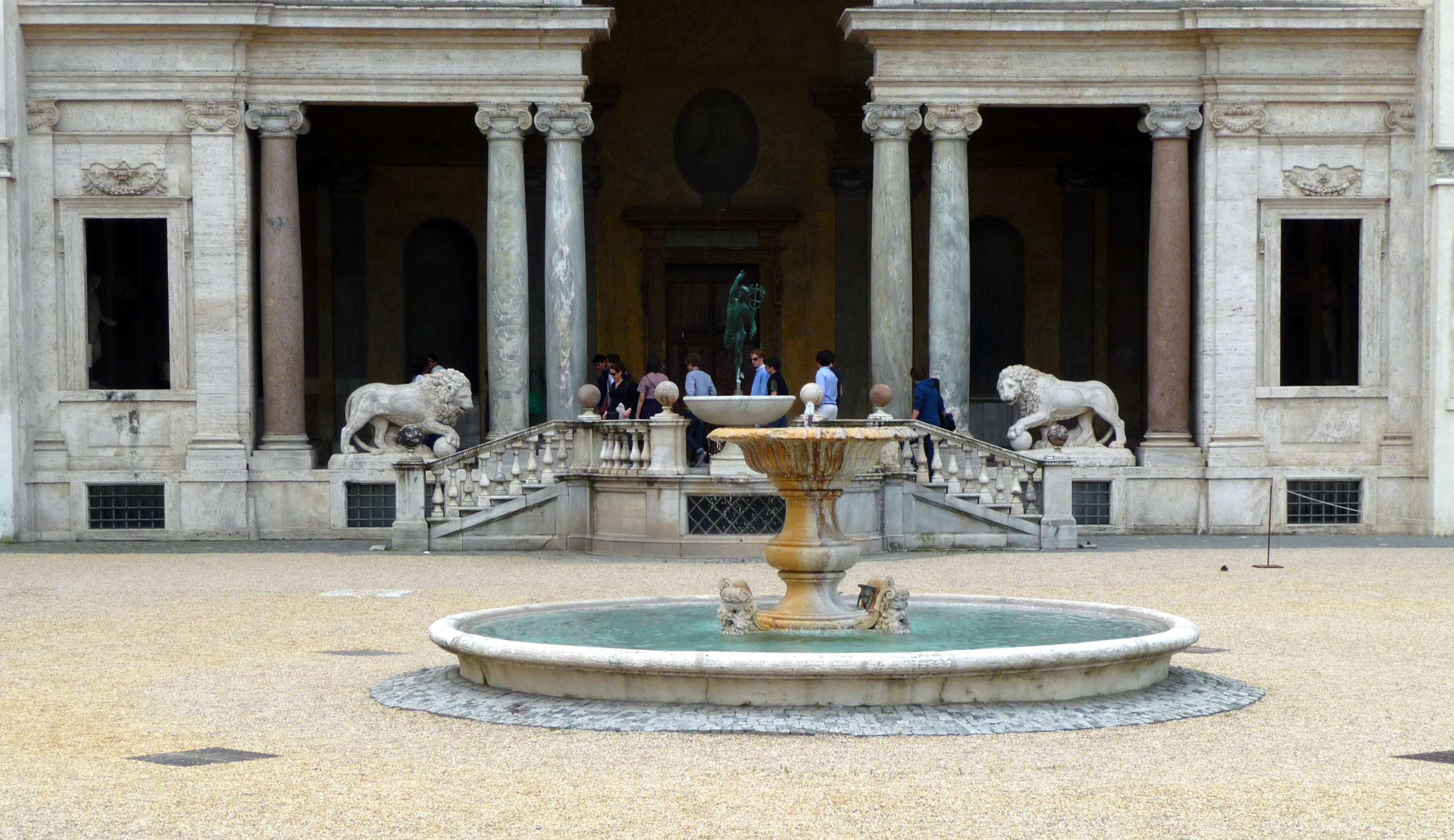 The Garden-front of the Villa Medici, fountain ca. 1858